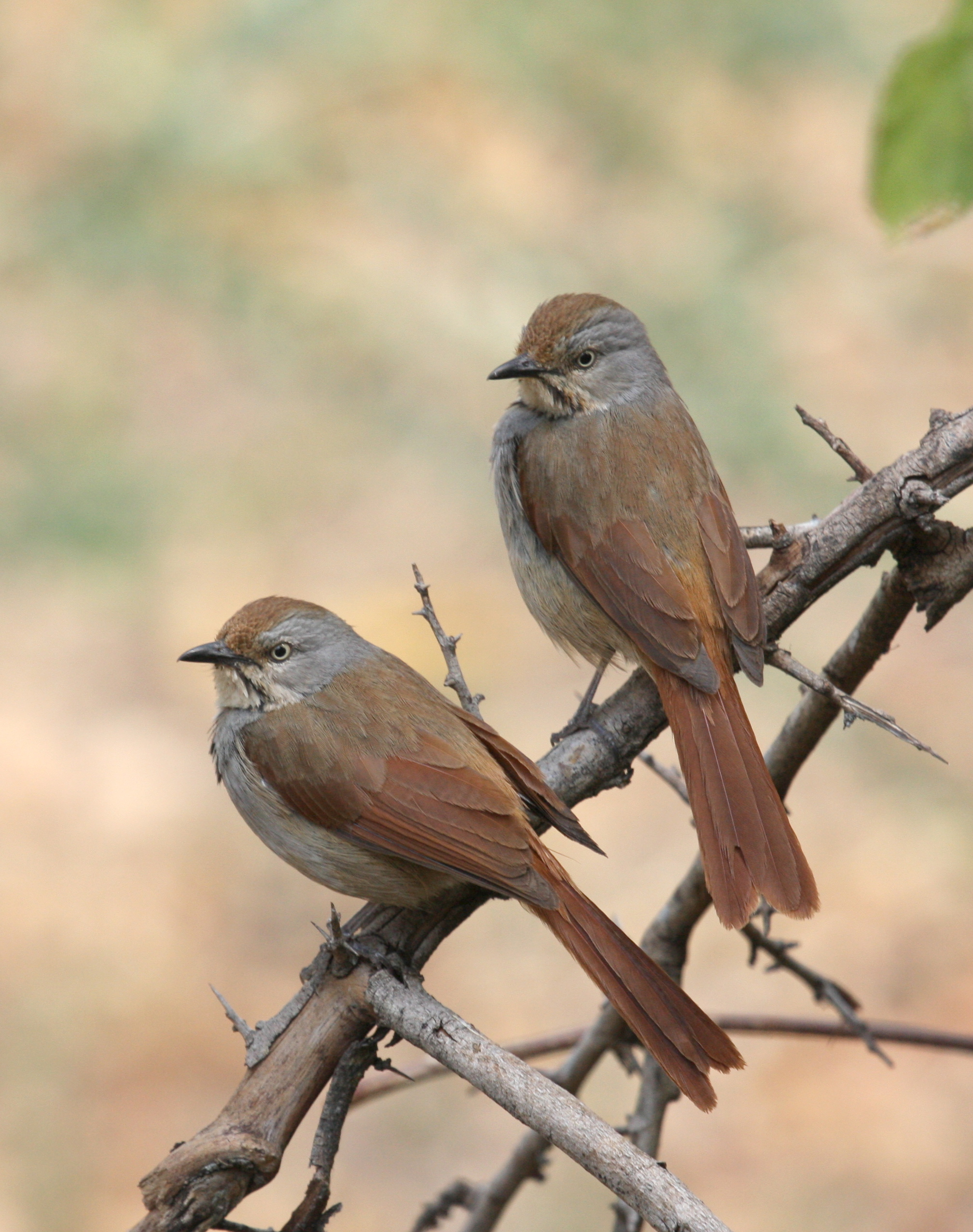 Two Collared Palm-thrushs near Jongomero, Ruaha National Park, Tanzania.